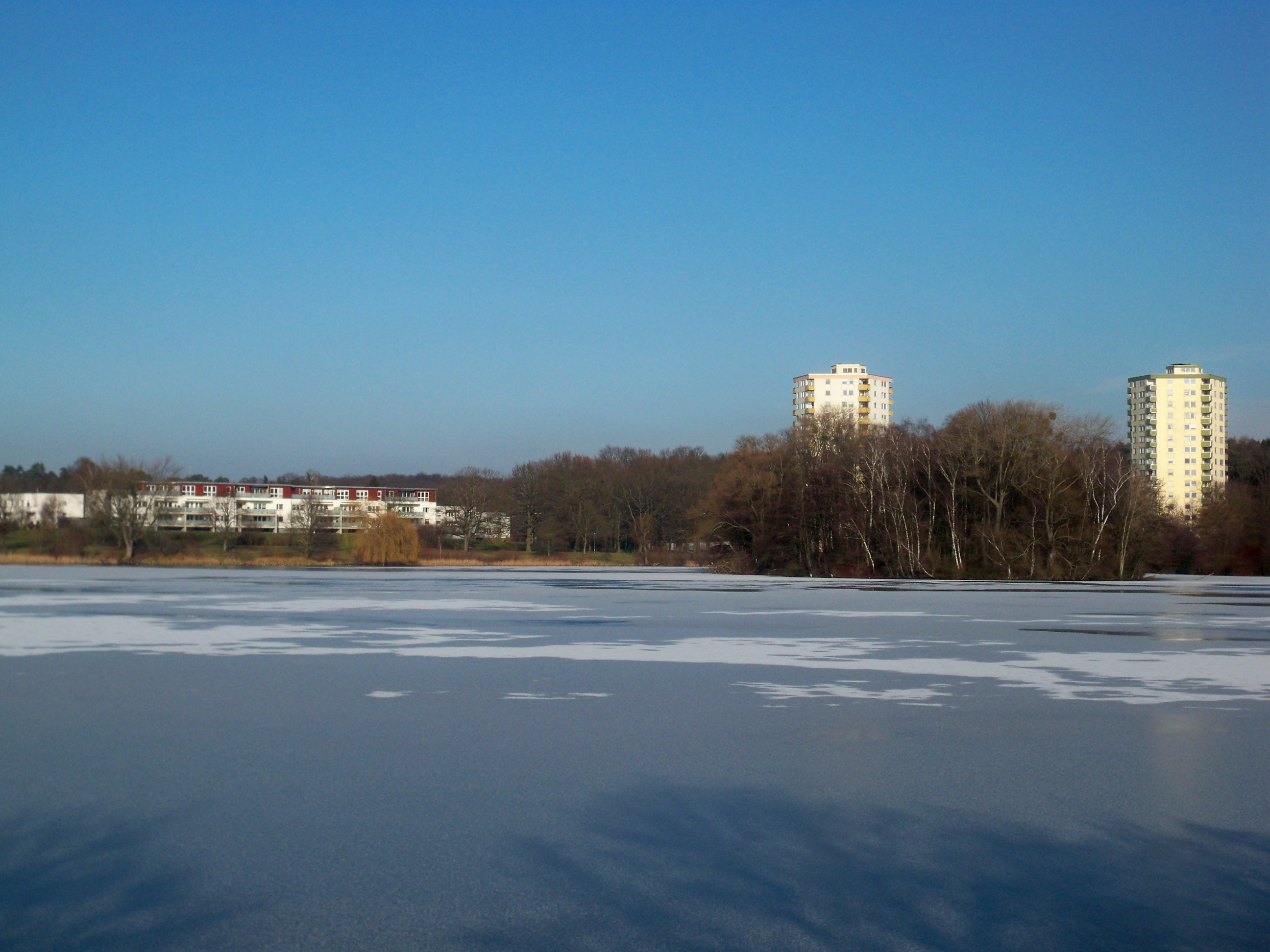 Wolfsburg, Lower Saxony, Tiergartenbreite with "Neuer Teich"